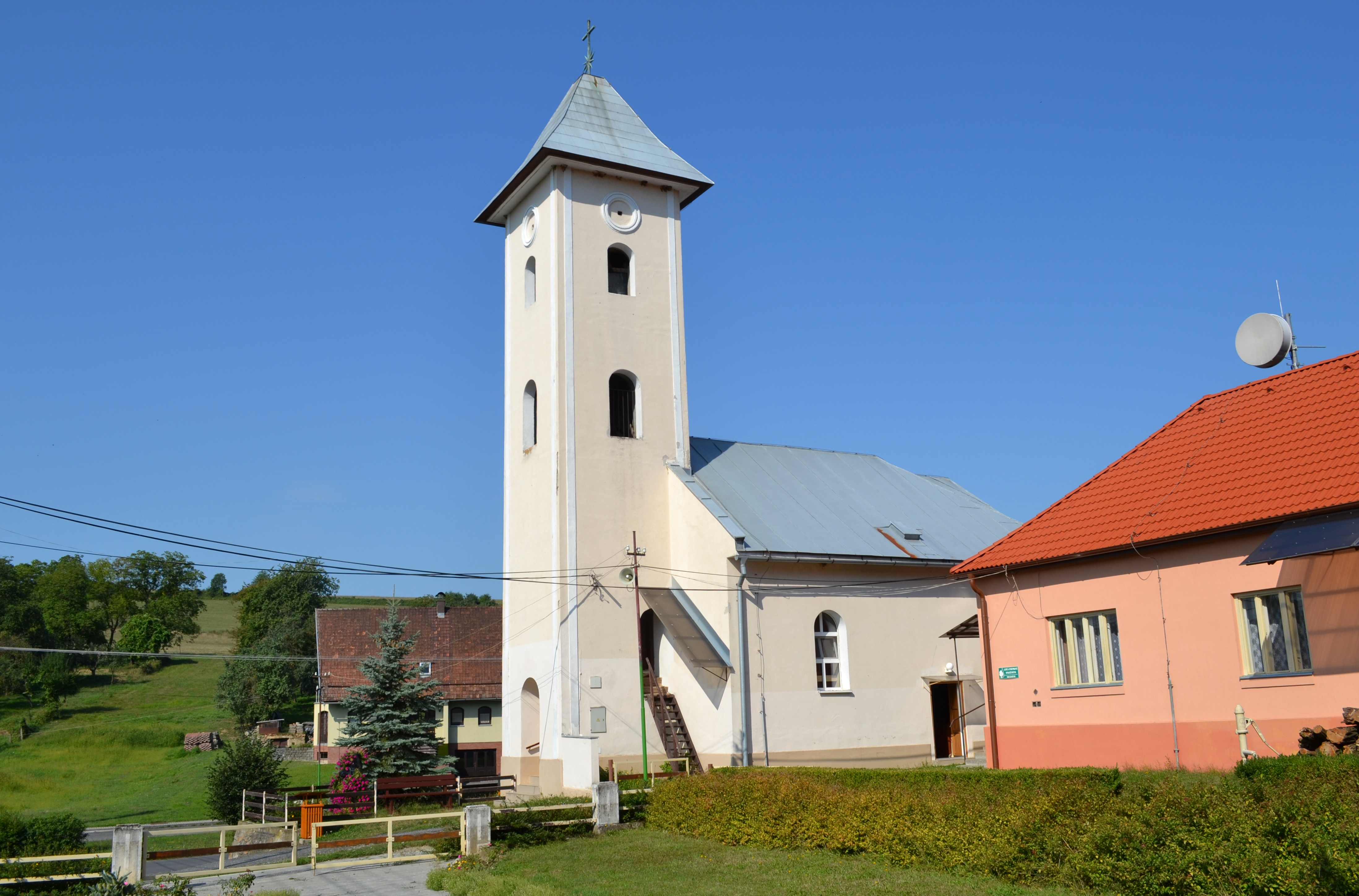 Lutheran Church in Hradište